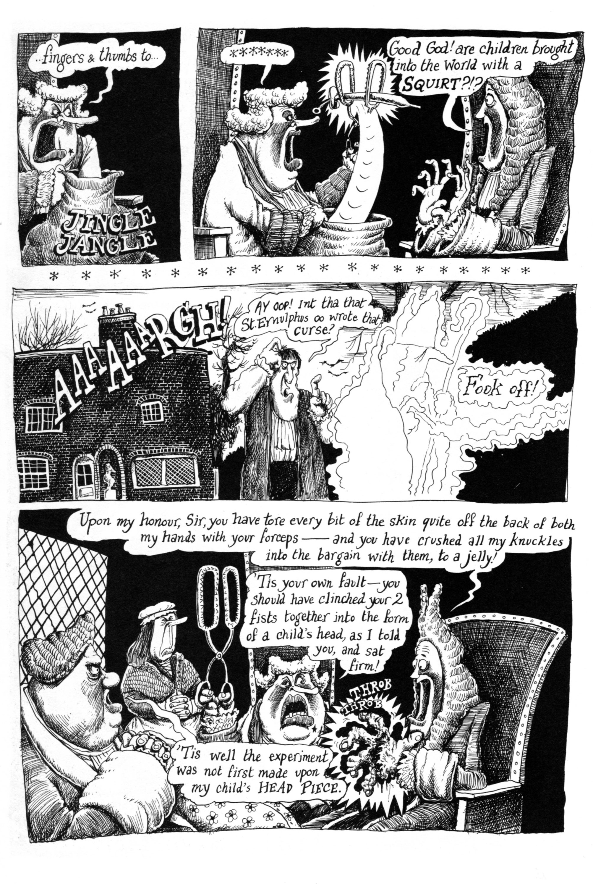 An original pen and ink drawing from page 76 of Martin Rowson's graphic novel reworking of The Life and Opinions of Tristram Shandy, Gentleman.